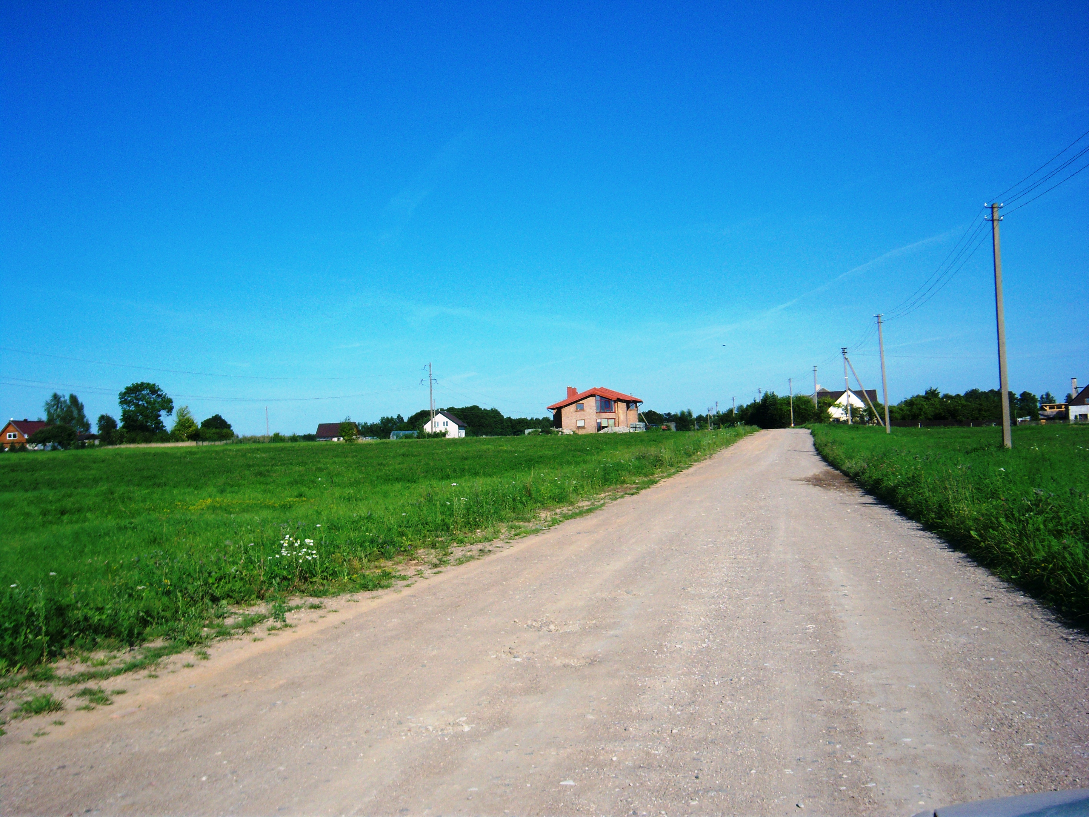 Rinkūnai, Kaunas district, Lithuania